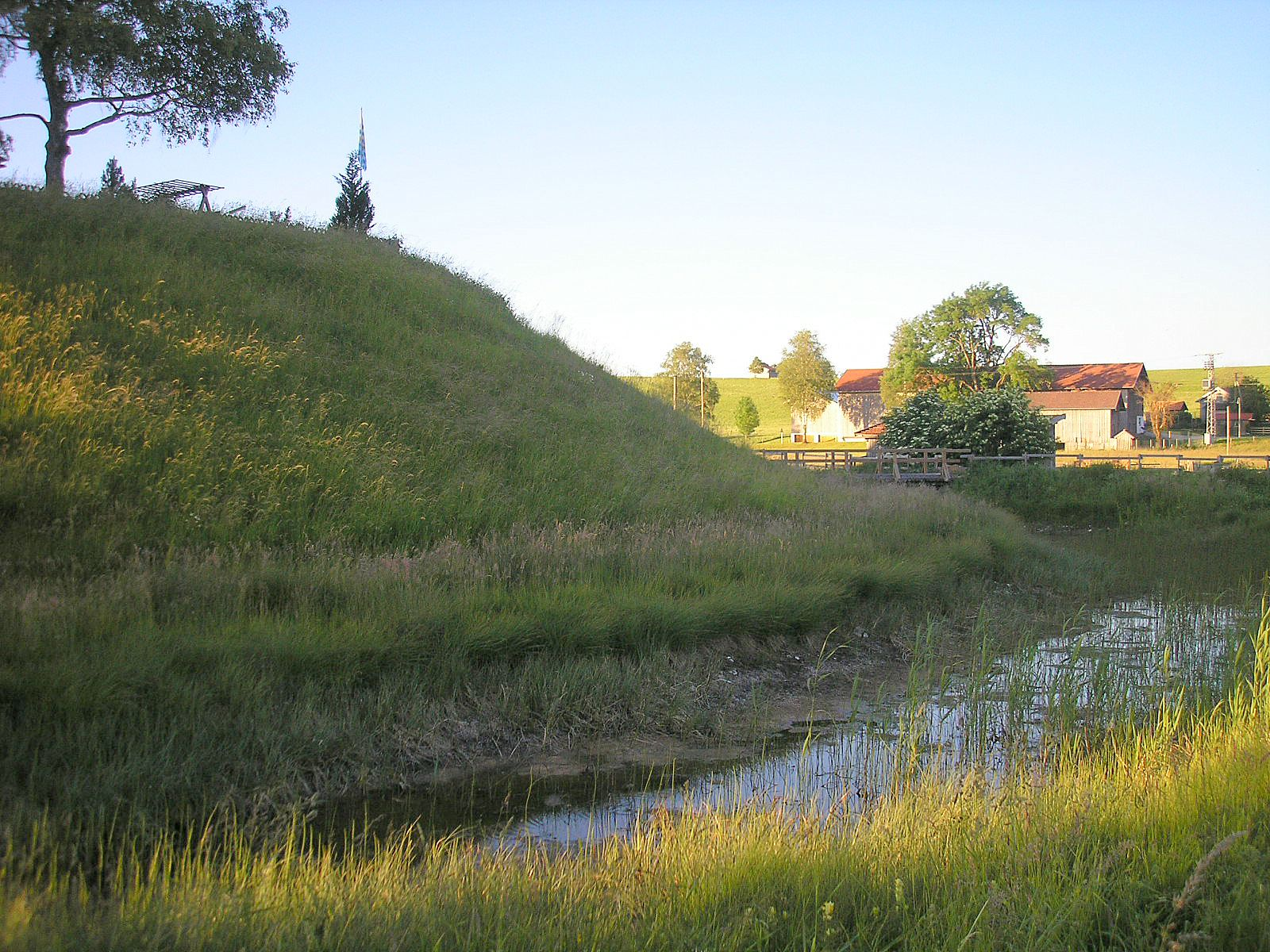 High Middle Ages motte-and-bailey castle at Burk (Seeg, Landkreis Ostallgäu, Bavaria, Germany). Looking into the moat of the central castle